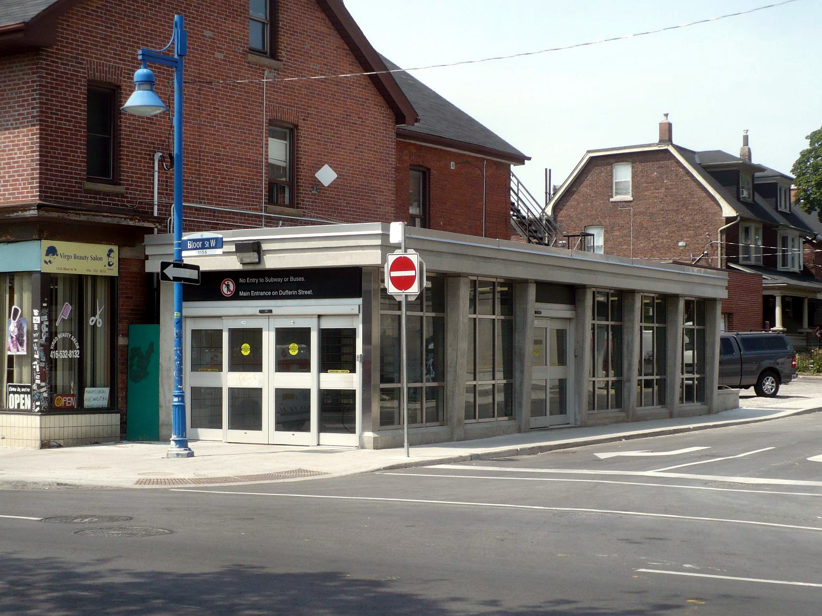 Dufferin TTC subway station in Toronto has a second exit at Russett Avenue